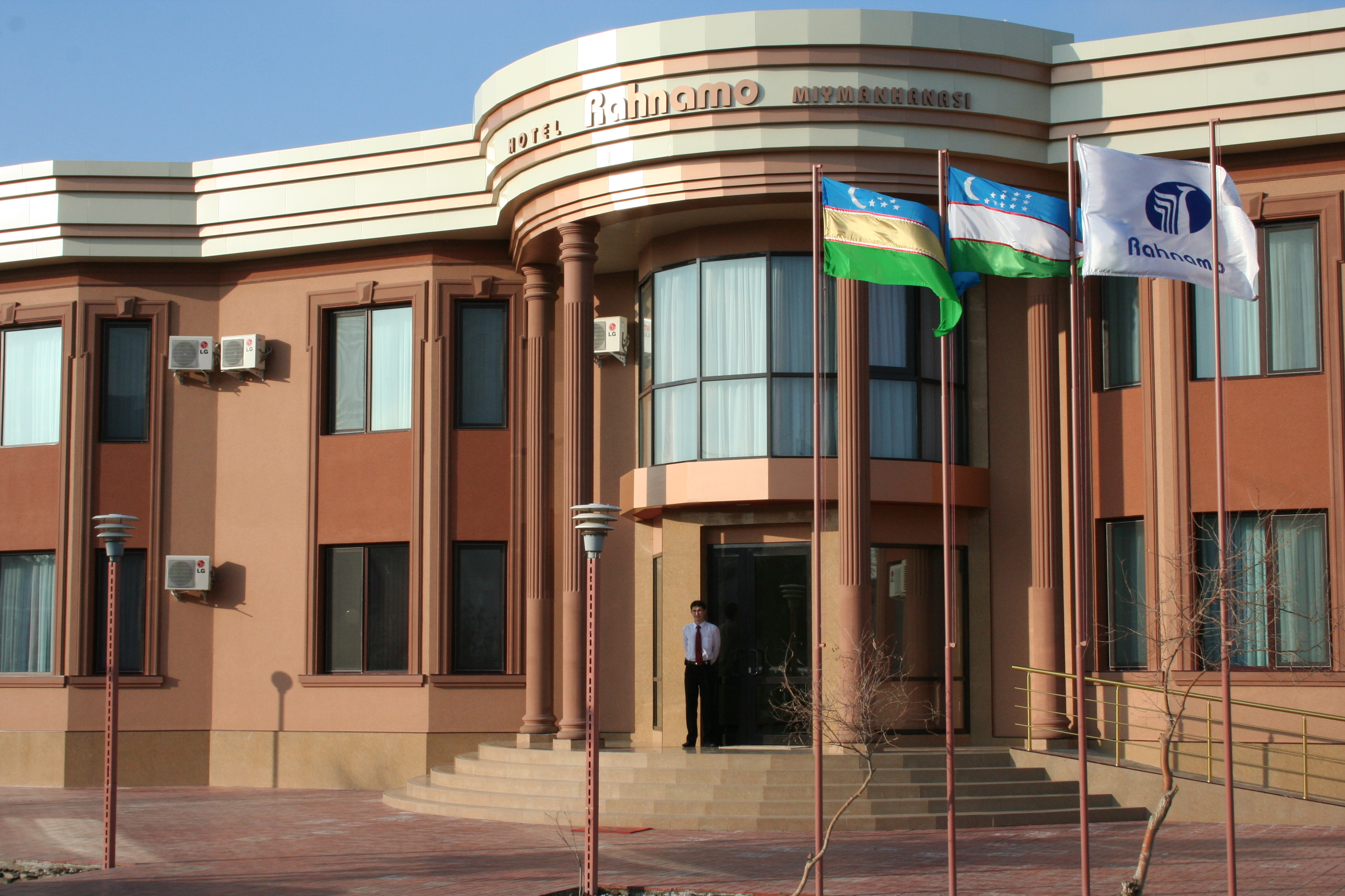 View of the hotel